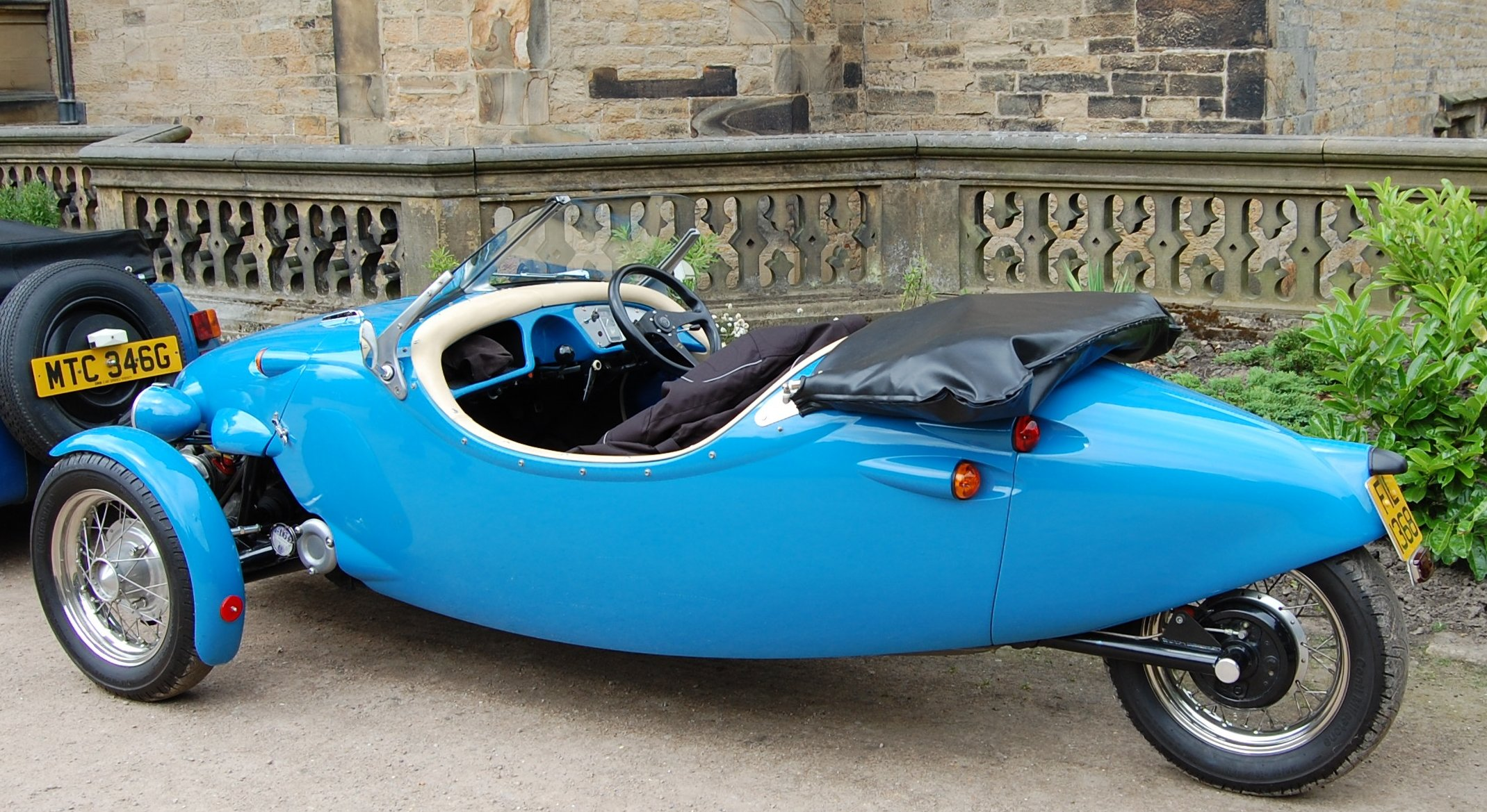 Sporty little motor built around a Citroen 2CV engine. Based on the style of the old Morgan three wheeler cars.